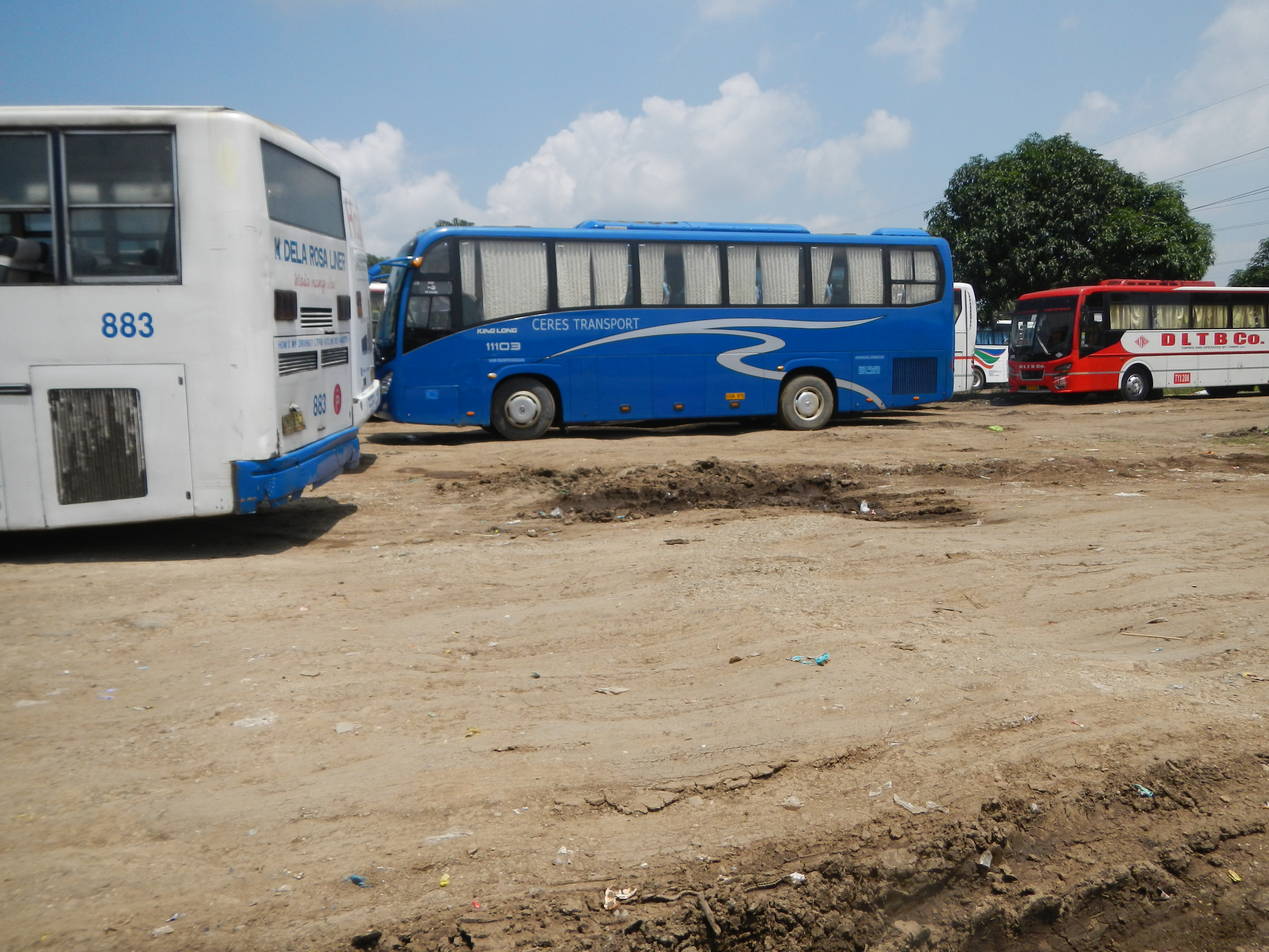 Upload Wizard -- (general description of landmarkds, town, church) - of - the Batangas Central Terminal, Waiting Area, the Port of Batangas, Batangas Port, Terminal II, Provincial PPA Livelihood Center, Governor Hermilando I. Mandanas Building, Montenegro Lines ship, ferry, Batangas [1] - Philippine Ports Authority [2], List of ports in the Philippines[3], [4] the biggest international port in the Philippines, occupying 2 towns from Bauan to Batangas City which is situated in Batangas Bay[5] (located in the Philippines - municipalities of Mabini, Bauan, San Pascual, Tingloy on Maribacan Island and Batangas City are located on the coast of the bay).